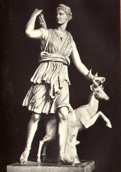 Artemis with a hind, better known as "Diana of Versailles". Marble, Roman artwork, Imperial Era (1st-2nd centuries CE). Found in Italy.